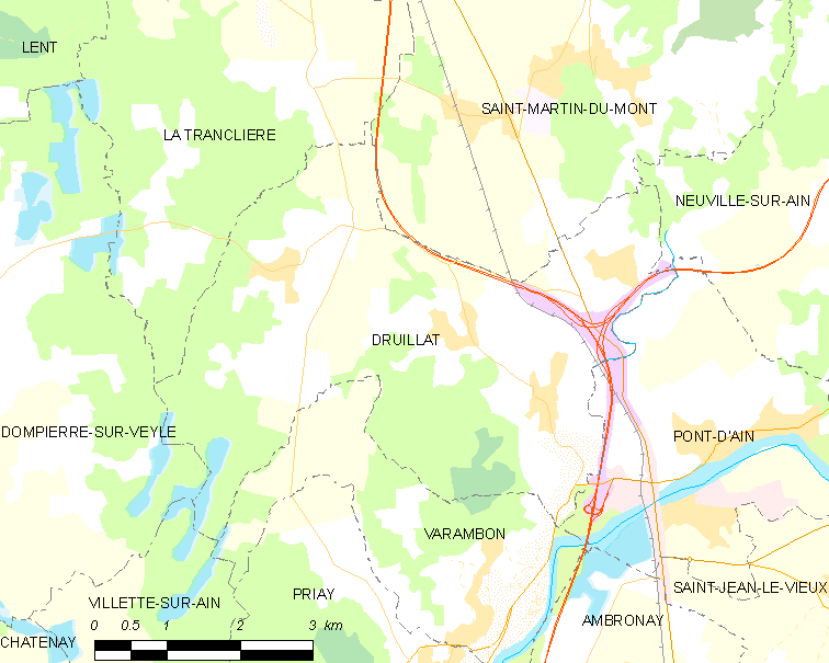 Map of French commune: Druillat Map commune FR insee code 01151.png